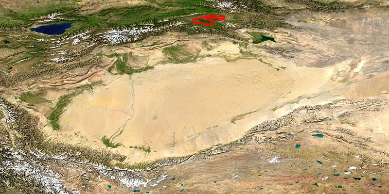 Bayan Bulak Grassland National Nature Reserve (in red outline), in the Tian Shan mountains, Xinjiang Province, China